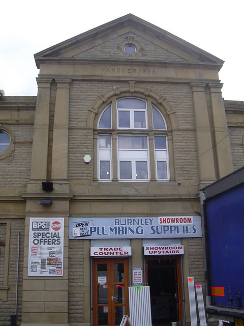 Hanover Chapel 1898